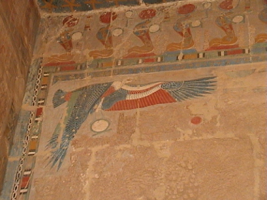 18th Dynasty of Egypt, Temple of Hatshepsut